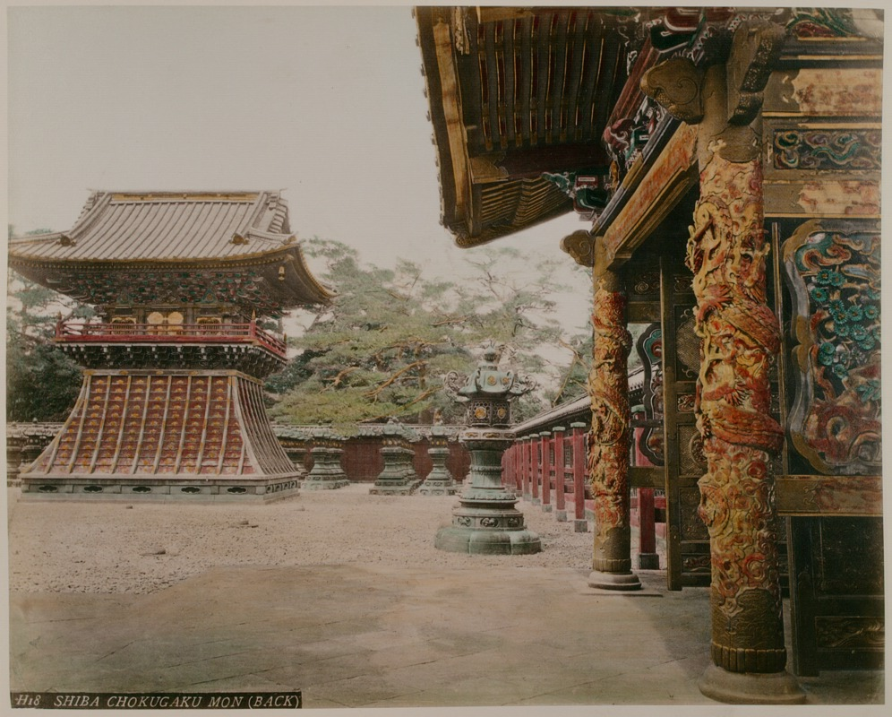 Shiba Chokugaku Mon (back). Yūshō-in Mausoleum complex showing the bell tower and Chokugaku gate, Zōjō-ji, Tokyo, between 1885 and 1890. Hand-coloured albumen print on a decorated album page by Adolfo Farsari. Accessed 3 April 2006.